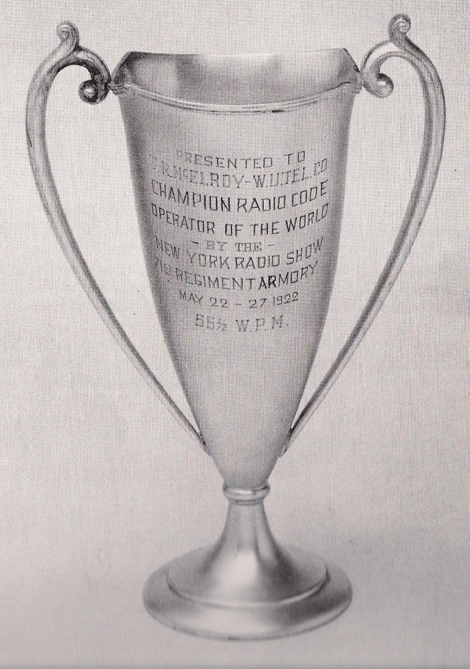 Trophy to Theodore Roosevelt McElroy for fastest telegraphy operator receiver